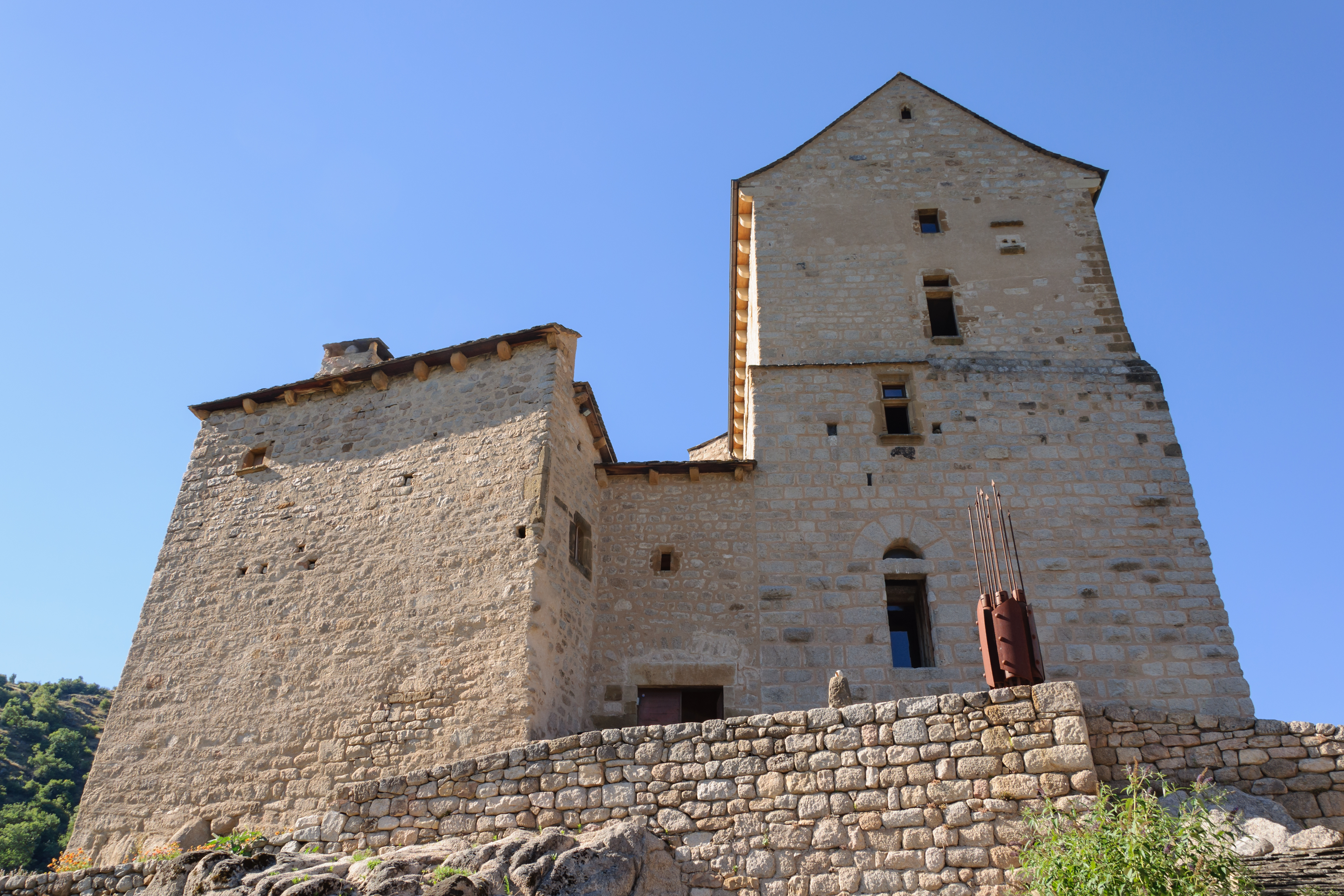 The entrance facade of the Château de Miral in Bédouès, Lozère, France) .